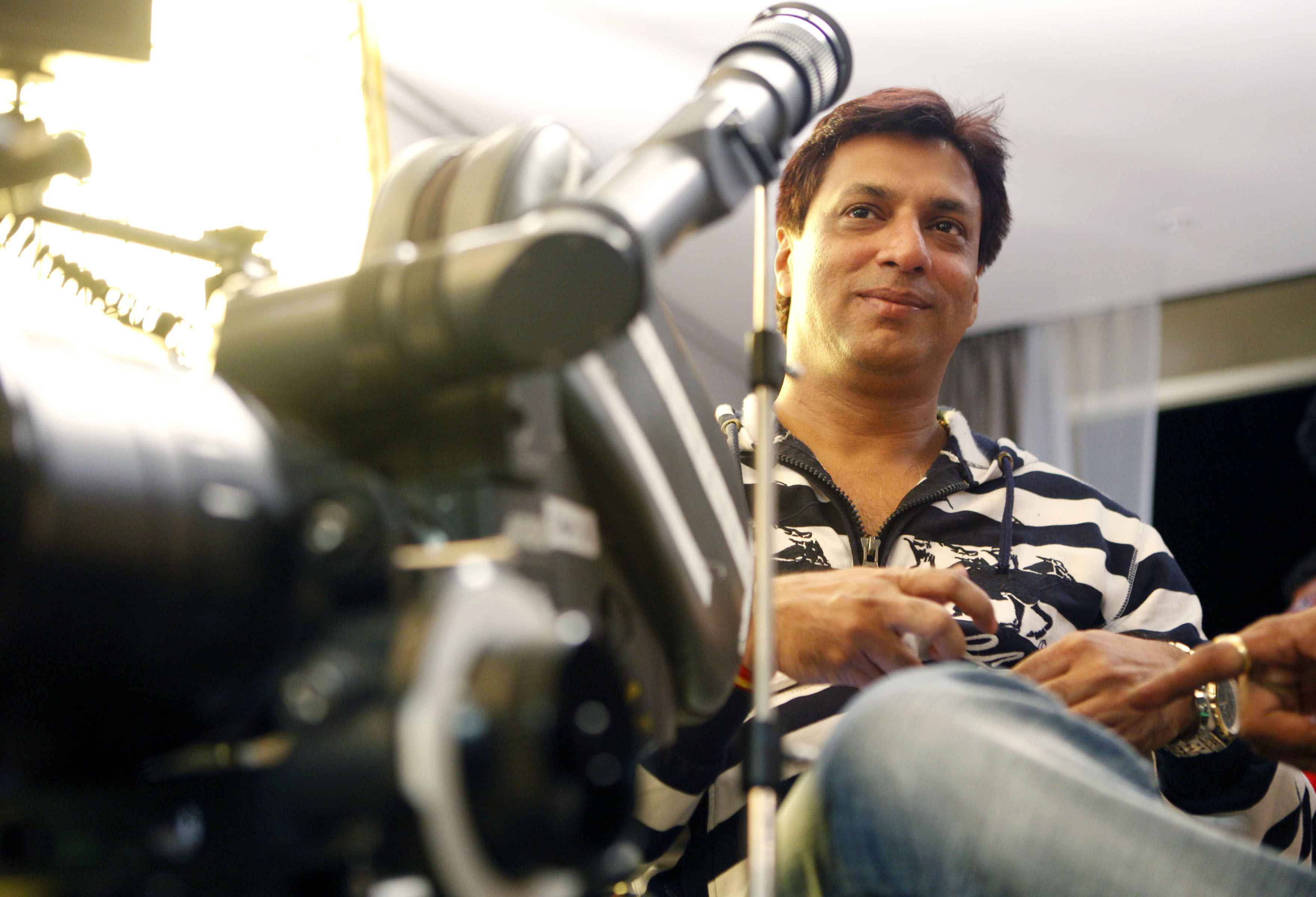 Madhur Bhandarkar on the Sets of HEROINE